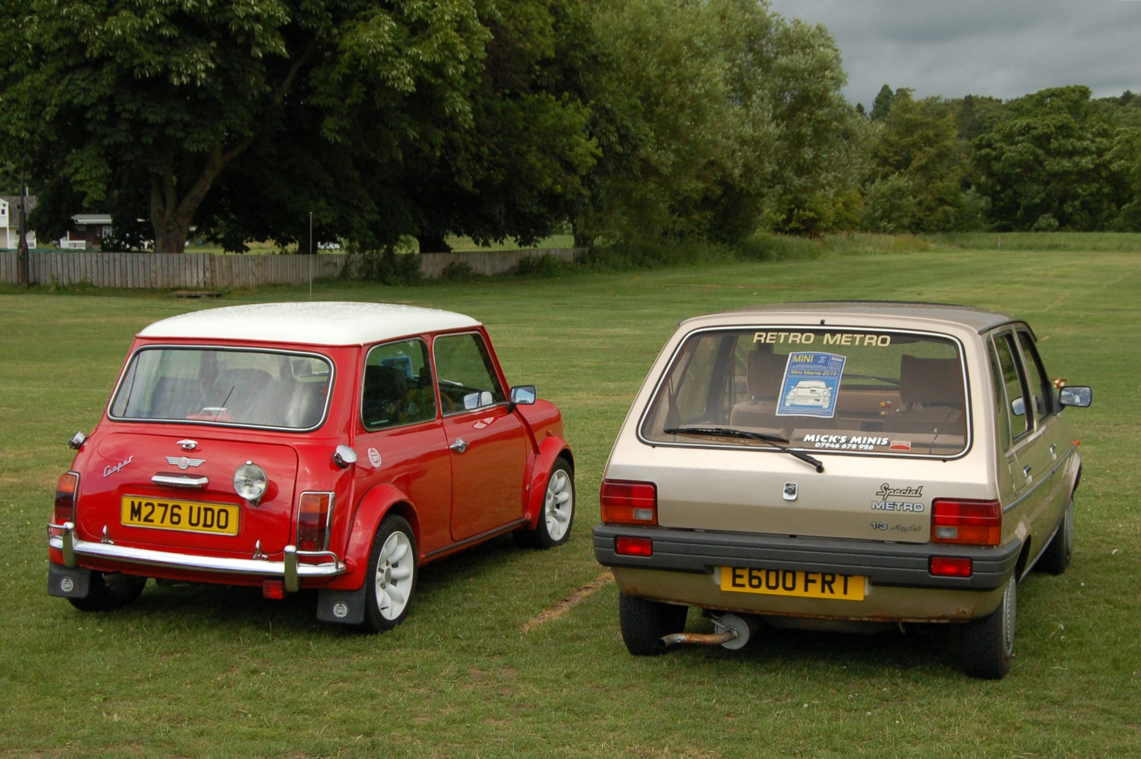 A red 1995 Mini (left) with a gold 1987 Austin Metro 1.3 Mayfair (right) at Corbridge Classic Car Show in 2010.